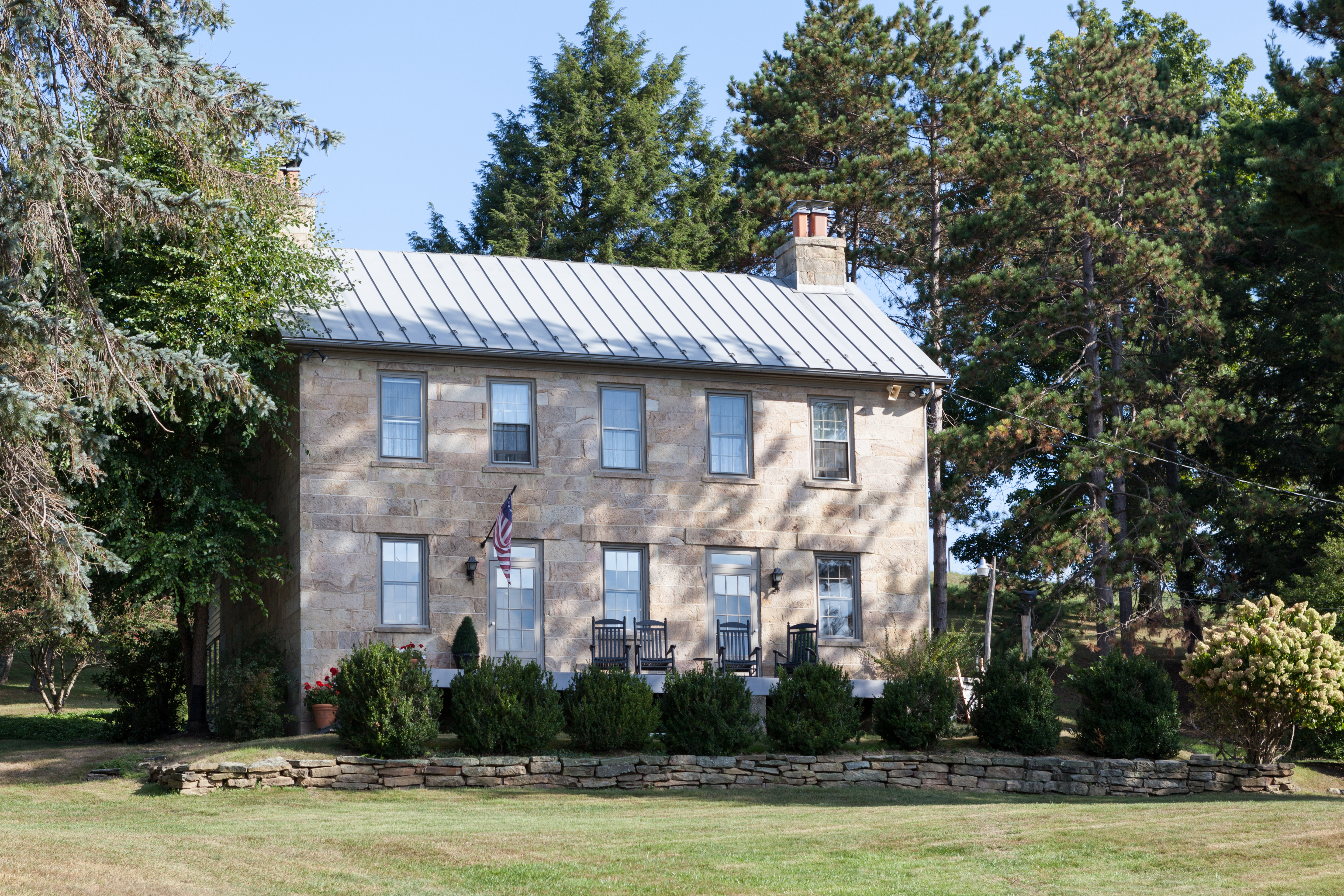 The south side of the A. W. Gribble Farm house, a circa 1842 farm house near Pisgah, West Virginia.